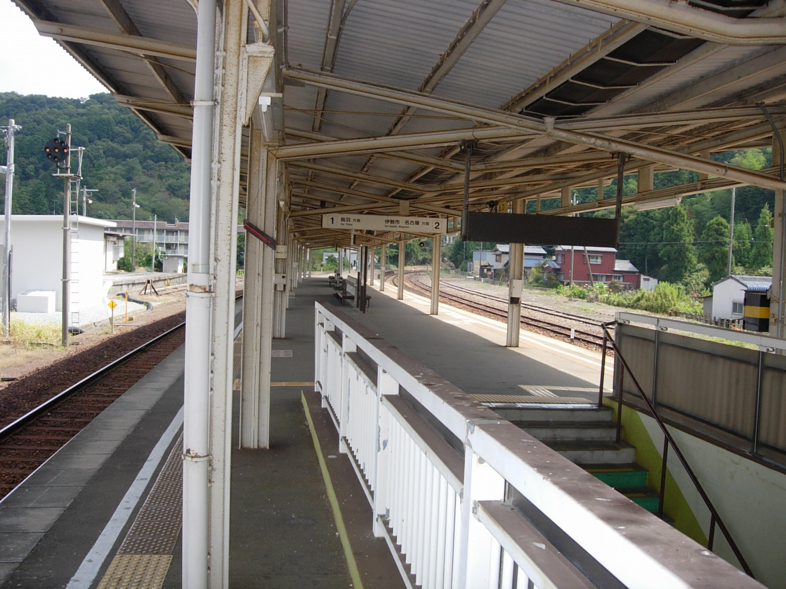 Futaminoura Station platform, Ise, Mie, Japan.